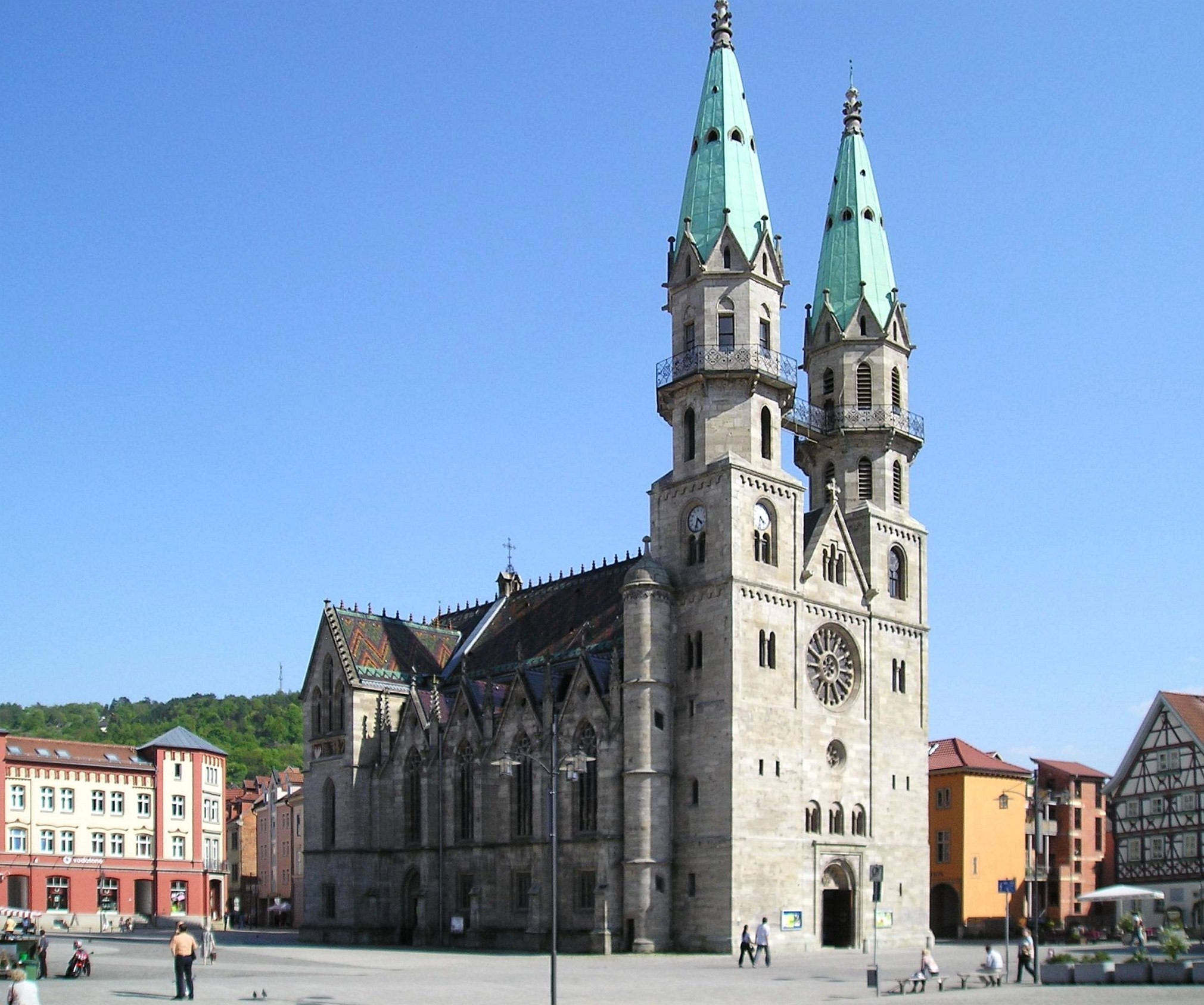 church in Meiningen, Germany